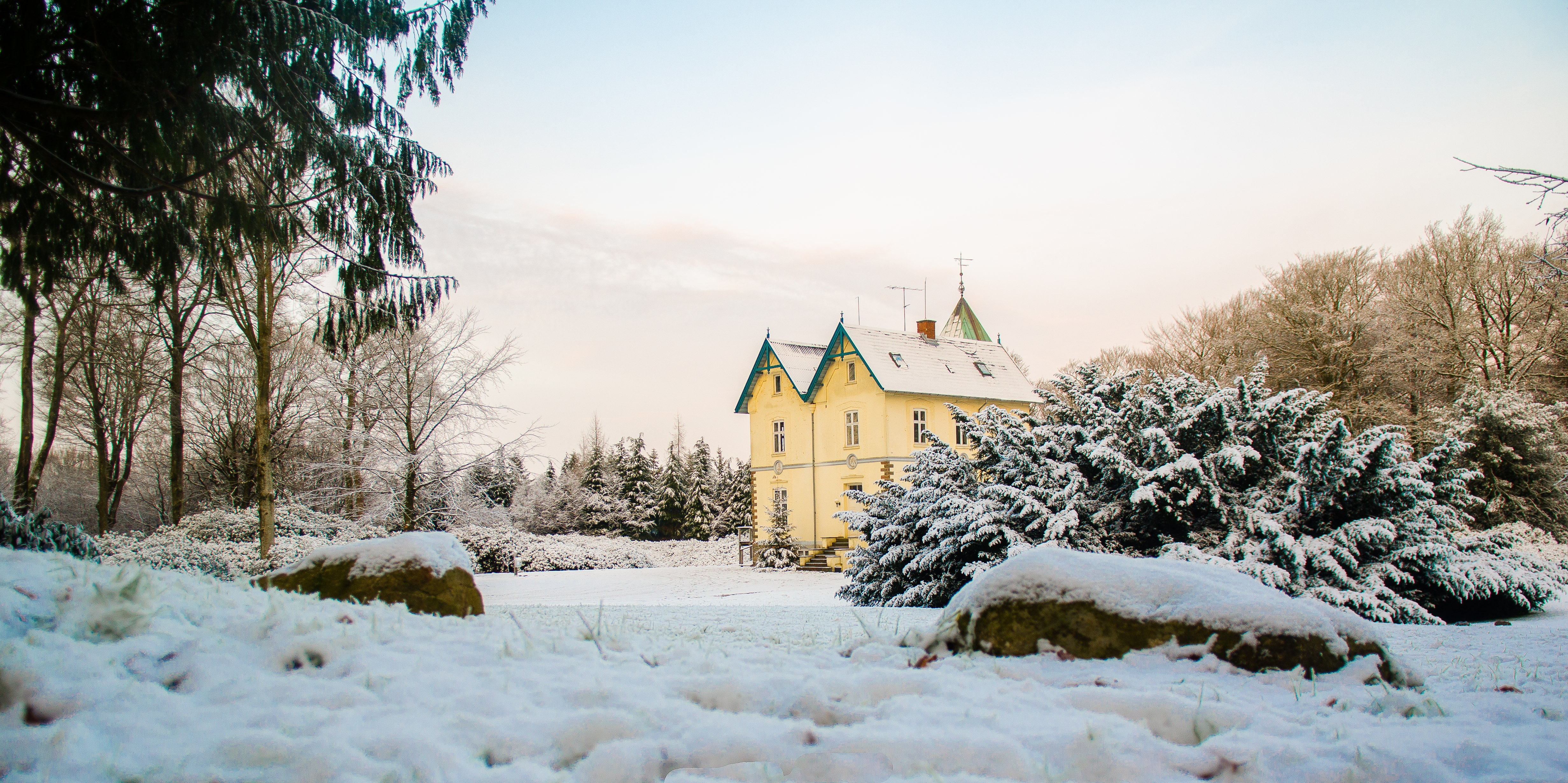 Addithus